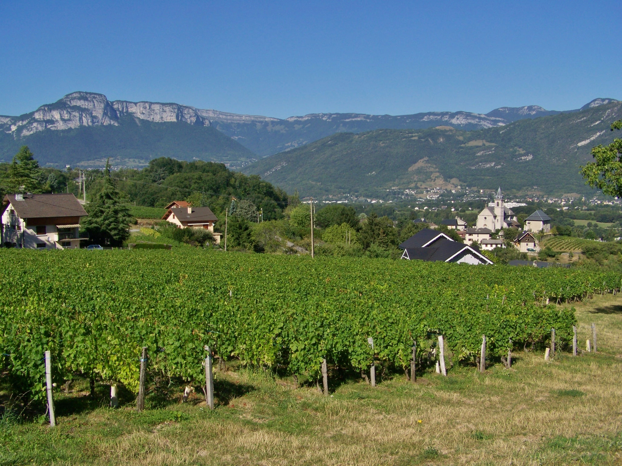 Saint-Baldoph (Savoie, Rhône-Alpes, France) : View of vineyards and church.